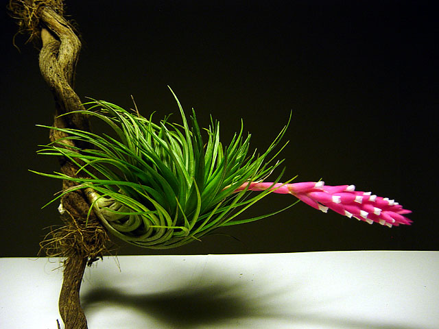 Tillandsia tenuifolia, fam. Bromeliaceae.